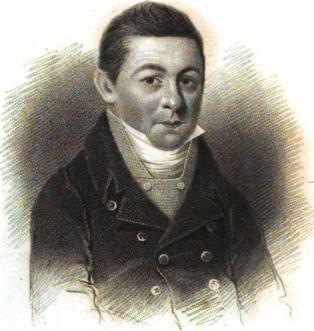 Portrait of the British officer James Scurry